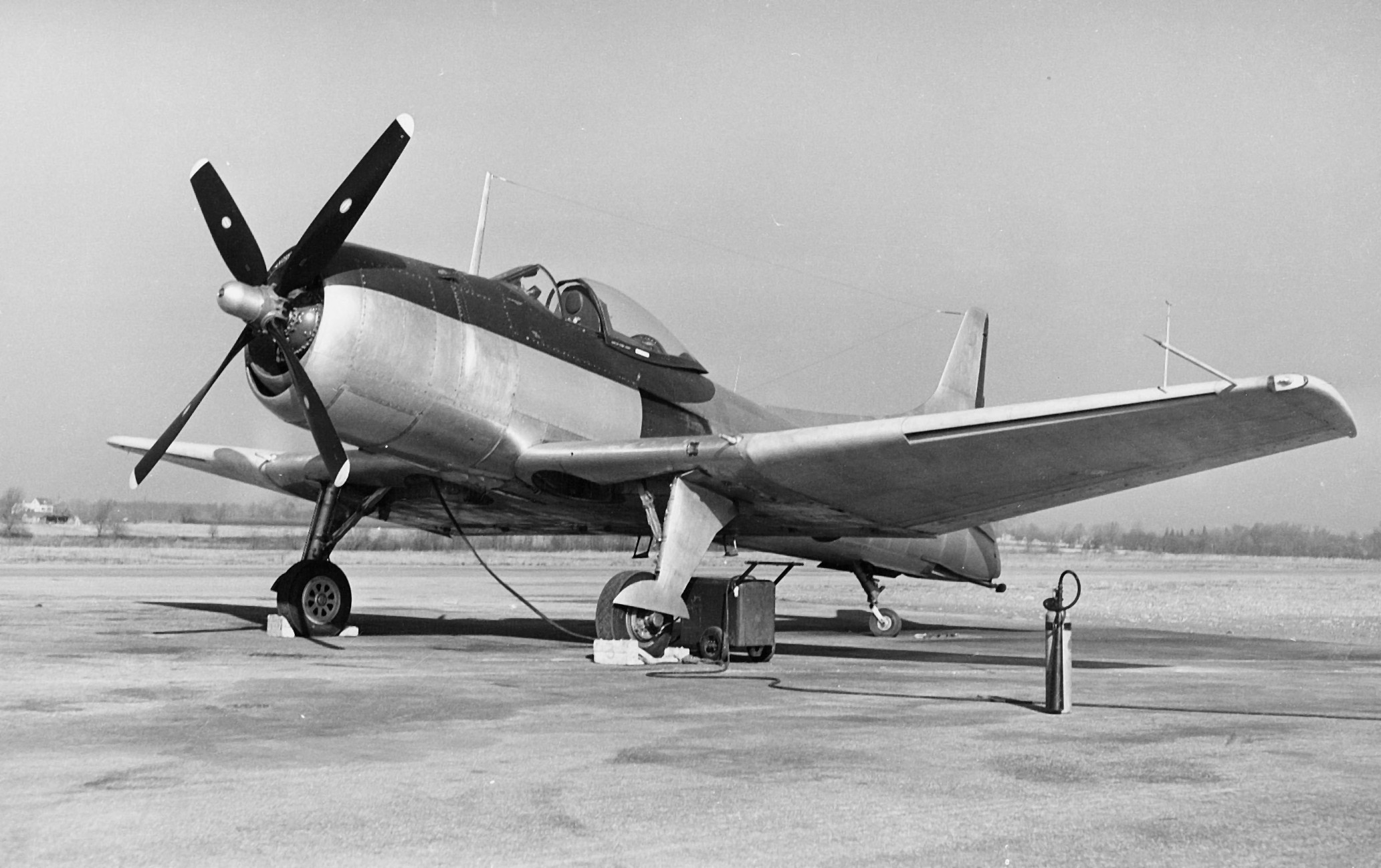 The second production Kaiser-Fleetwings XBTK-1 (BuNo 44314) at the Kaiser-Fleetwings factory airfield at Bristol, Pennsylvania (USA), in 1946. This aircraft was fitted with leading edge slats.